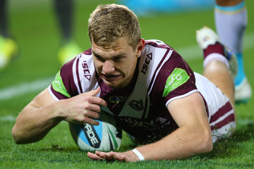 Playing for Manly Sea Eagles 2016